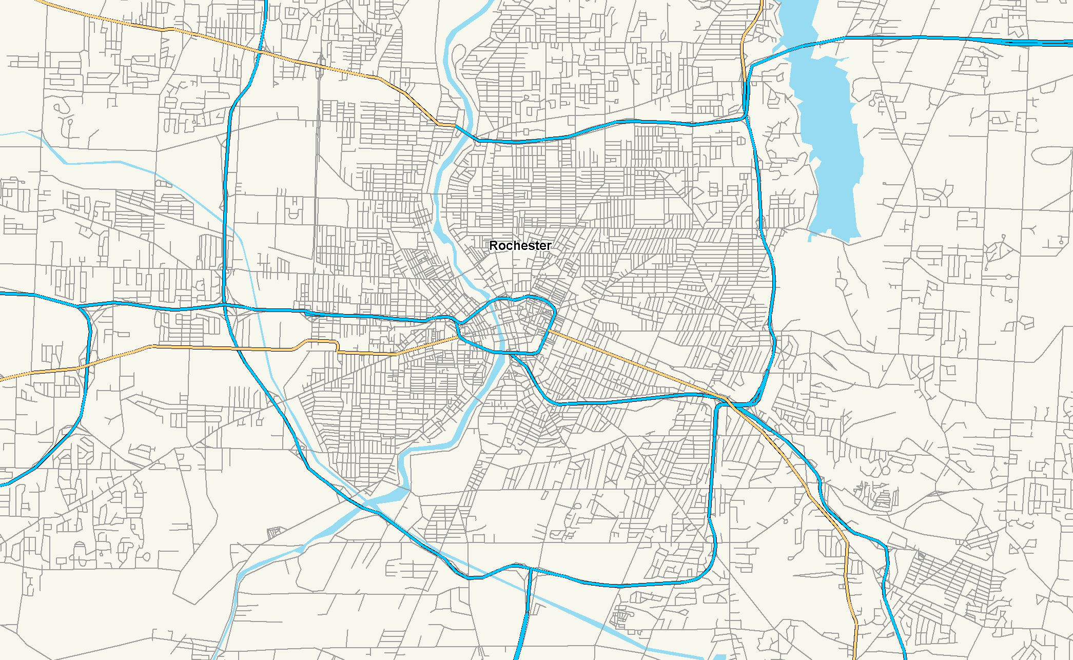 Close view of the road network of Rochester, NY. Interstates in Blue.